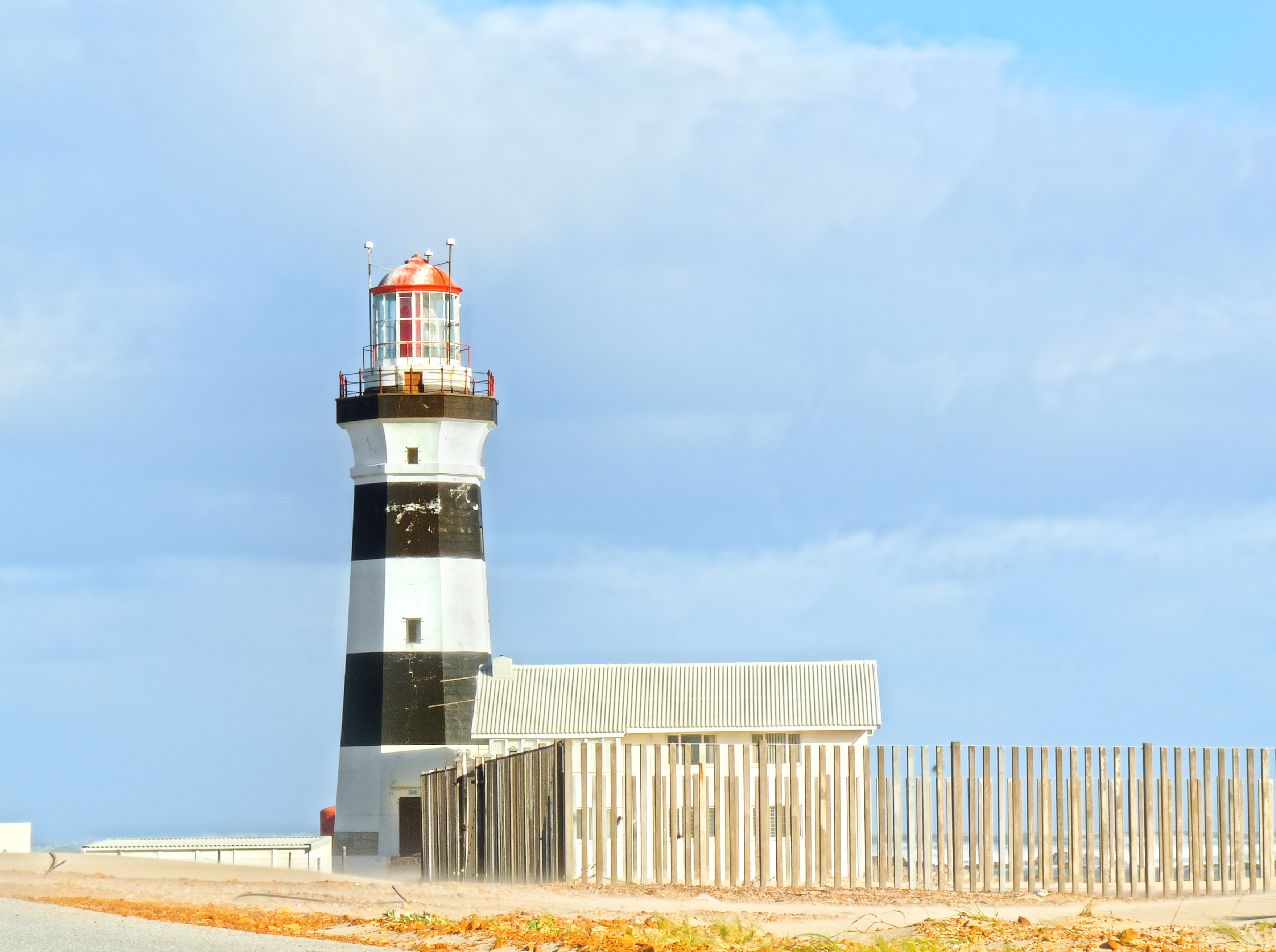 As early as 1835, the need was discussed for some sort of warning to protect ships from the shallow reefs at Cape Recife, which marks the end point of Algoa Bay. A beacon was erected there until a lighthouse could be built.In 1851 a 24 m high octagonal masonry tower was built under supervision of GW Pilkington. This lighthouse predates that on the Donkin, which was built in 1861. This media shows a South African Protected Site with SAHRA file reference NEW.